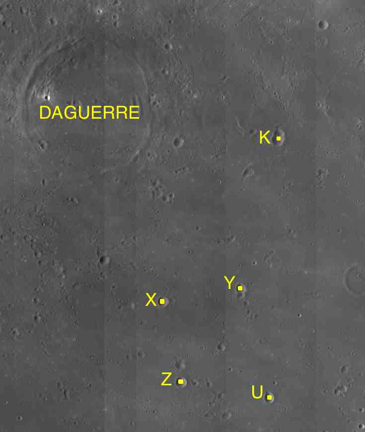 Part of the chart LAC-79 used for the presentation